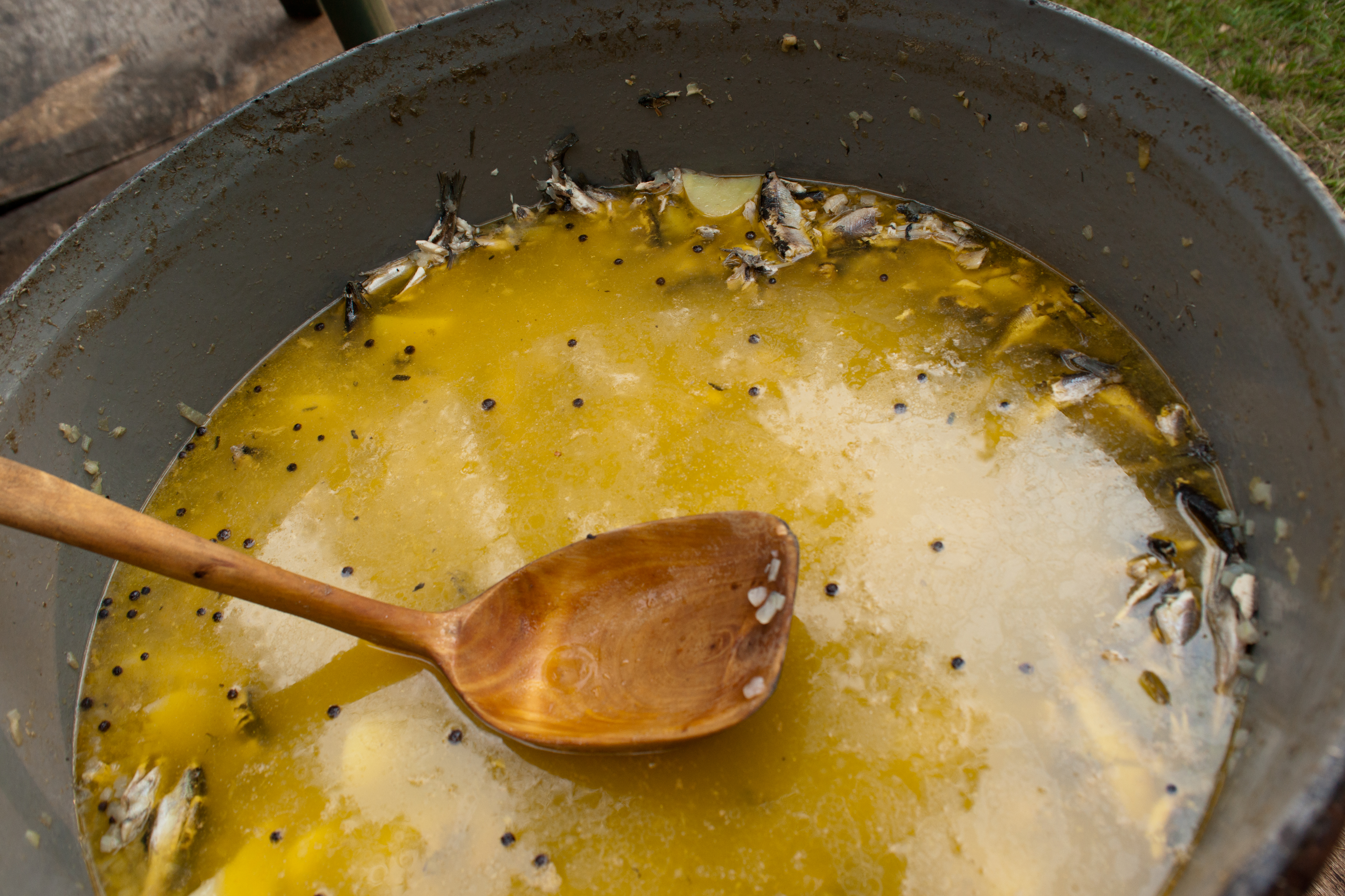 Traditional fish soup, Hankasalmi, Finland.